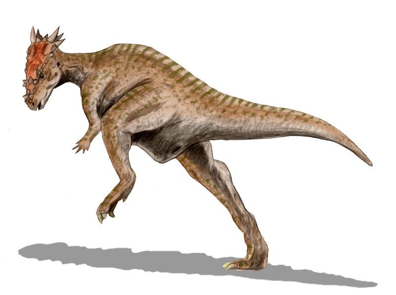 Dracorex hogwartsia, a pachycephalosaur from the Late Cretaceous of North America, pencil drawing